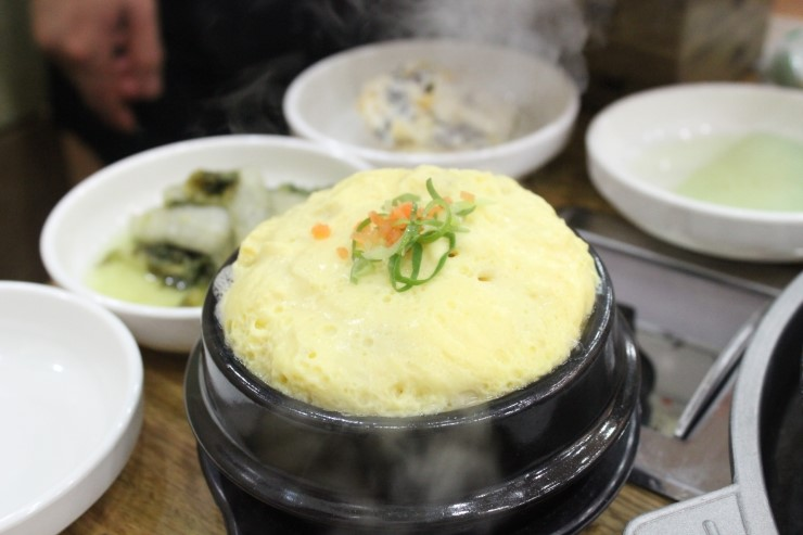 gyeranjjim